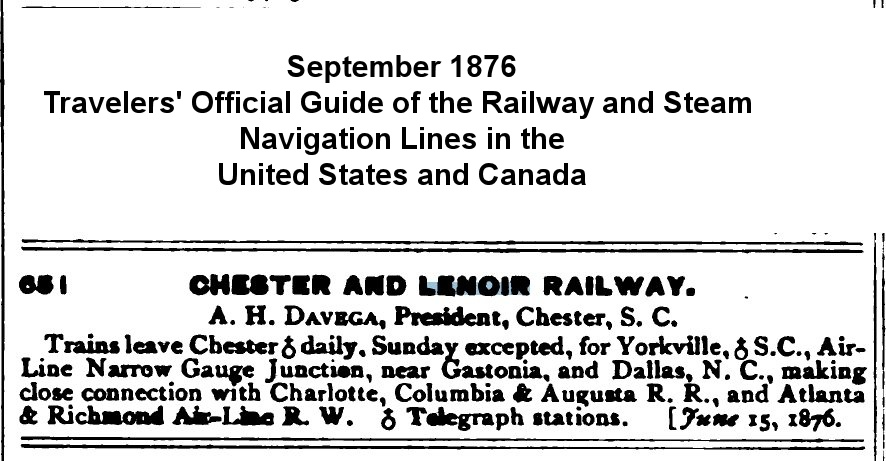 Rather sketchy schedule for the Chester and Lenoir as published in the Travelers' Official Guide for September 1876. Most schedules included at least departure times.